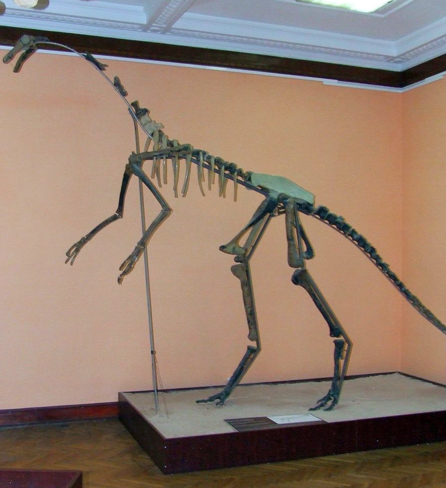 Gallimimus bullatus, Muzeum Ewolucji PAN - skeleton copy, original is back in Mongolia